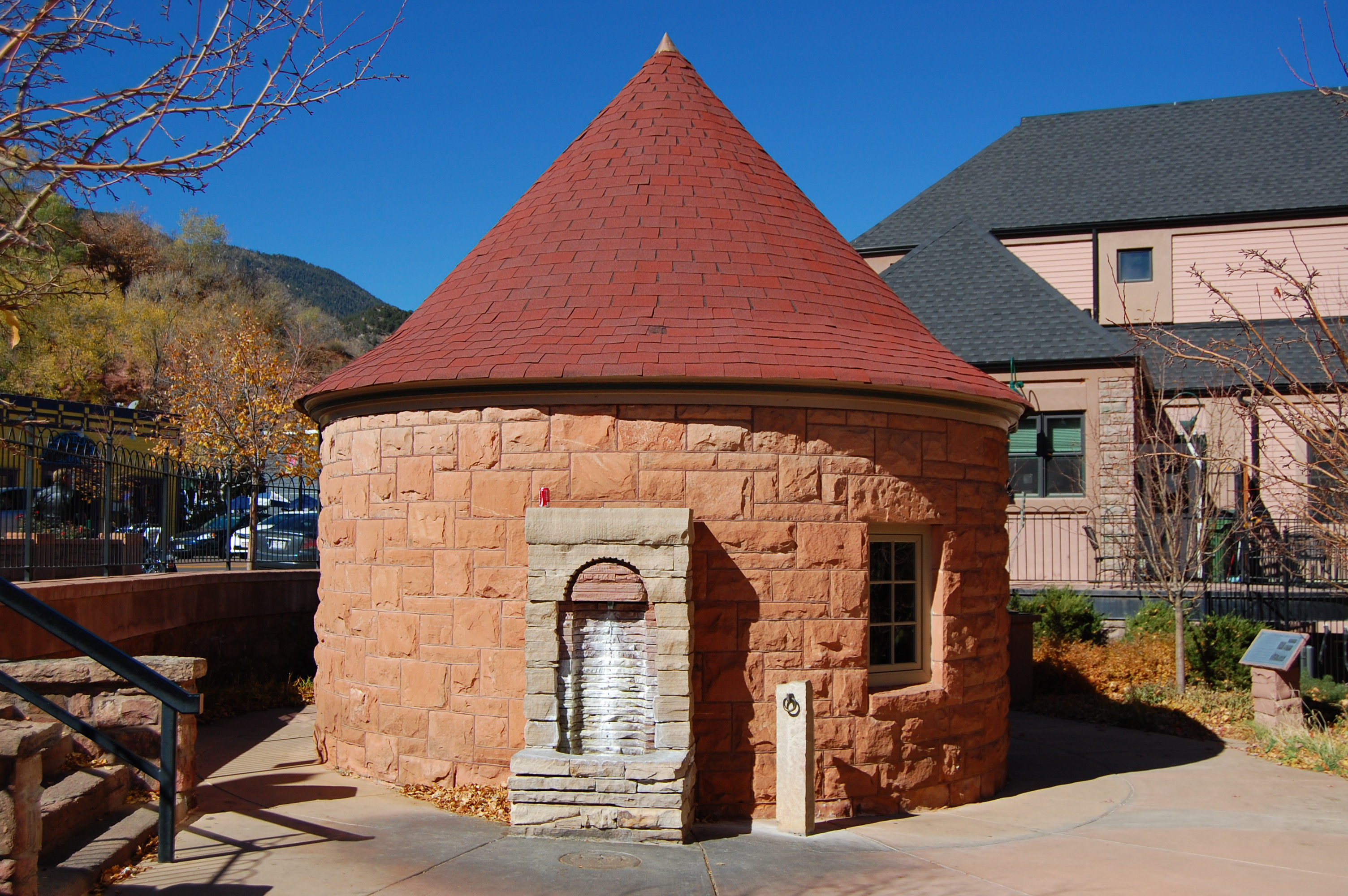 Shoshone Spring, October 21, 2012